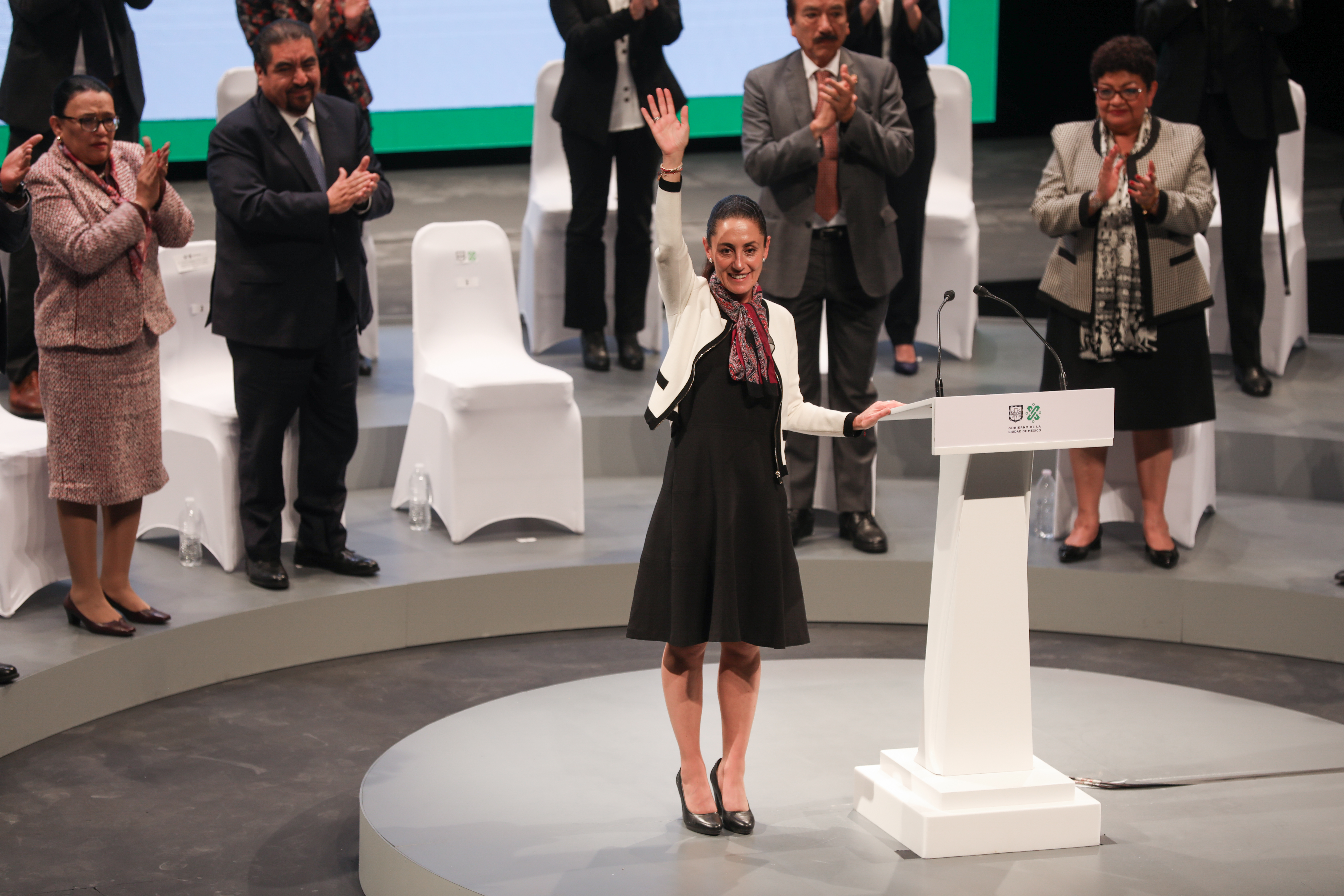 Después de tomar protesta como jefa de gobierno, Claudia Sheinbaum acudió al Teatro de la Ciudad de México para presentar a su gabinete y programa de gobierno.